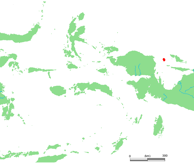 ID Numfor.PNG